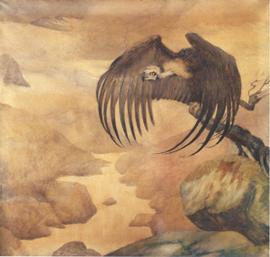 Volture by Elise Konstantin-Hansen